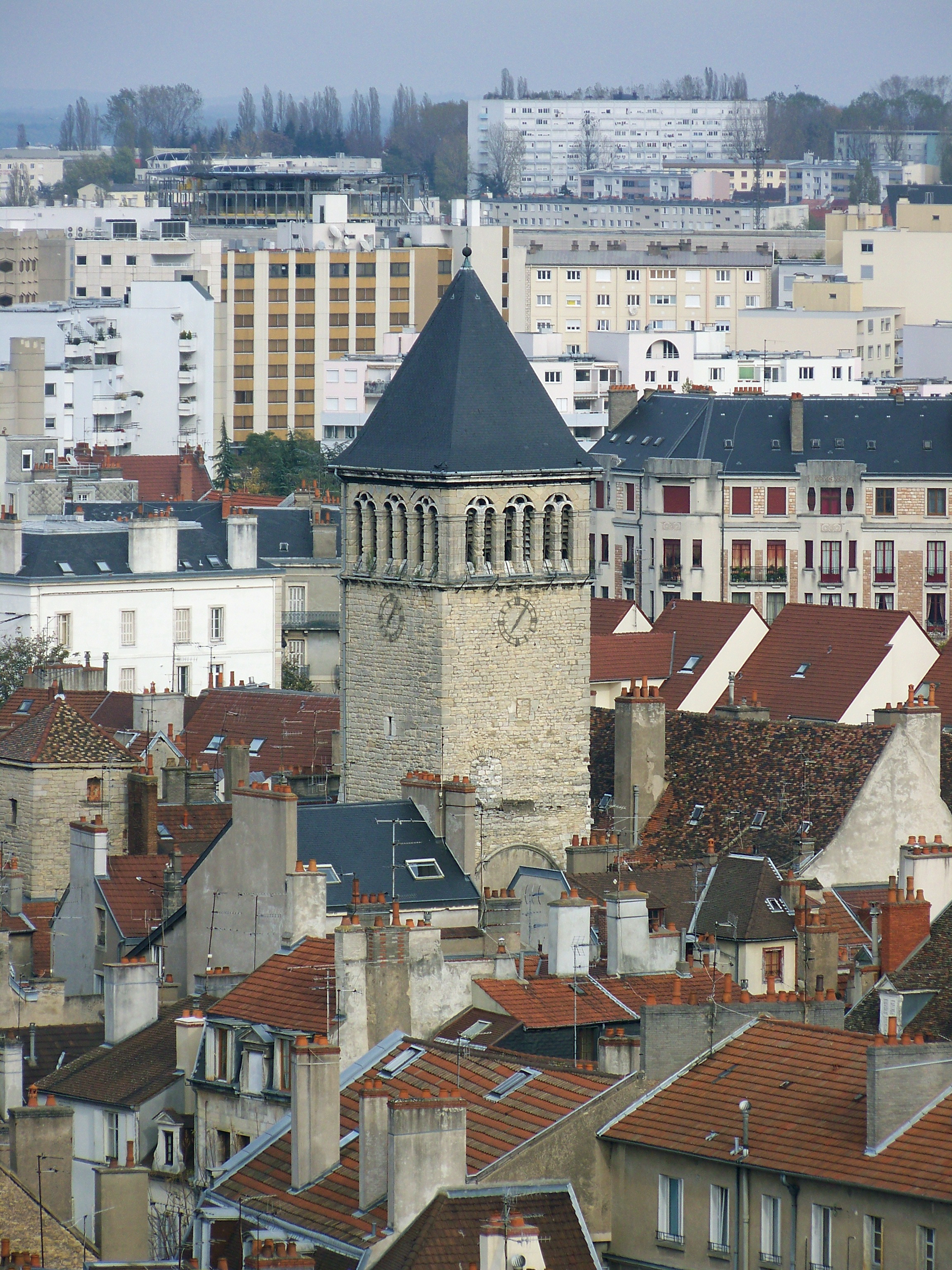 Tower of the former church Saint-Nicolas in Dijon, seen from the top of the Philippe le Bon tower, in the Palace of the Dukes of Burgundy.